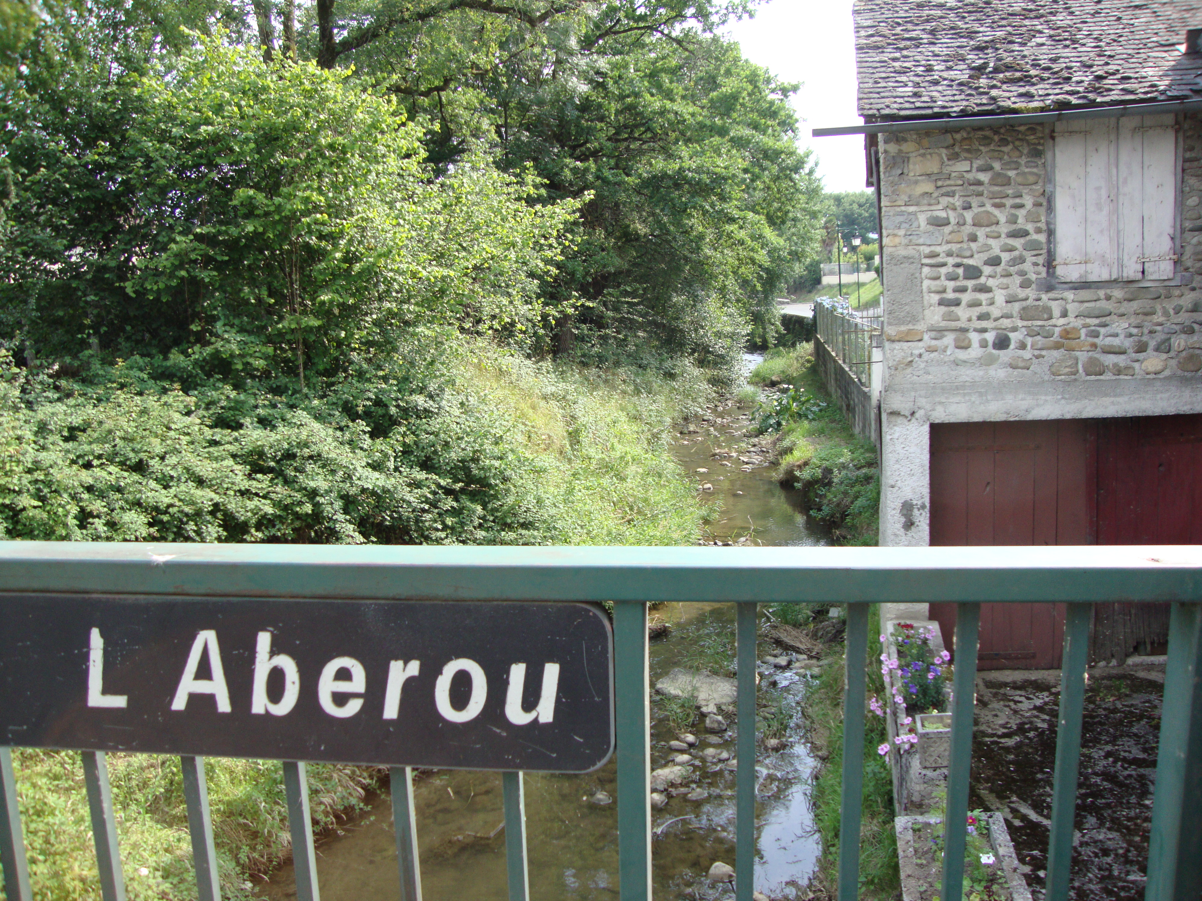 Ledeuix (Pyr-Atl, Fr) Laberou (river). The nameboard has been changed from L'Aberou into Laberou